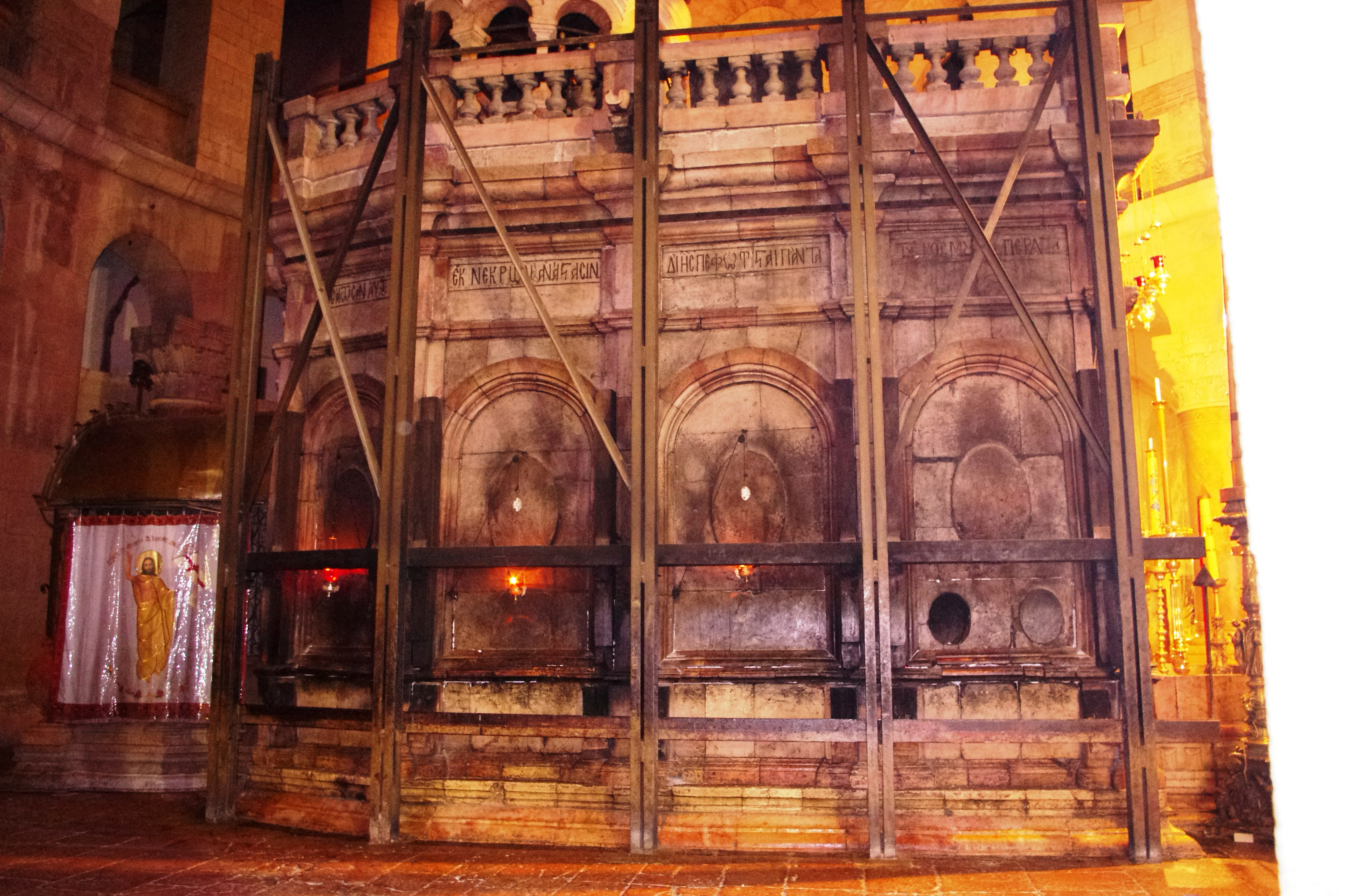 Scaffolding around the aedicula of the Tomb - The Holy Sepulchre; Jerusalem